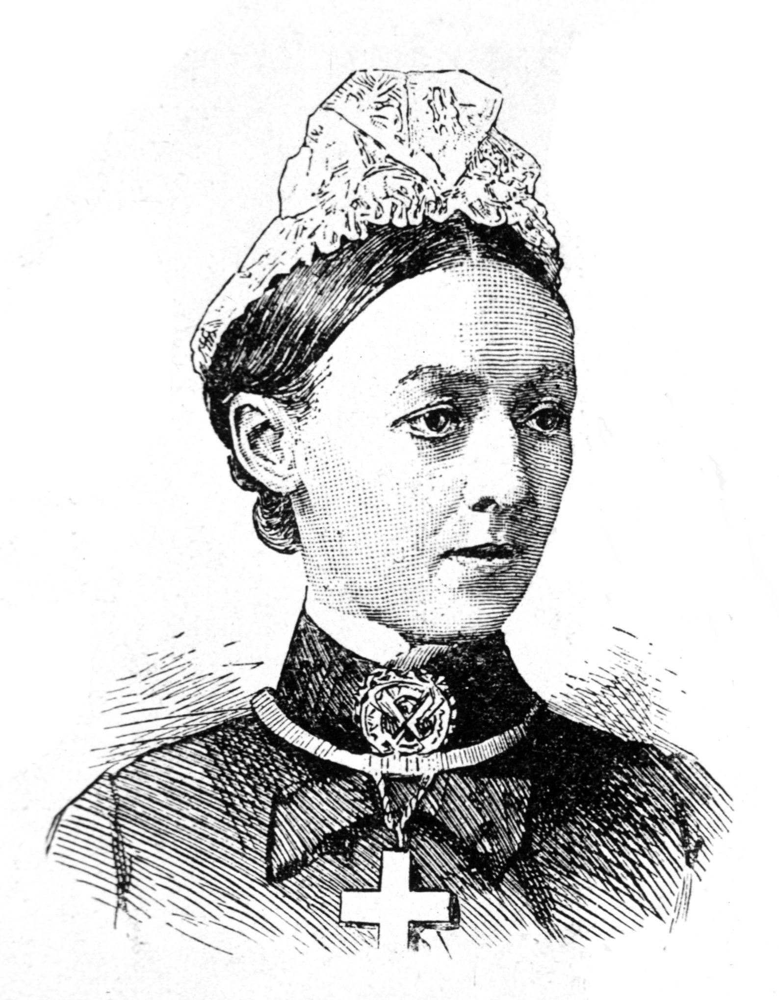 Mary Scharlieb (1845-1930)